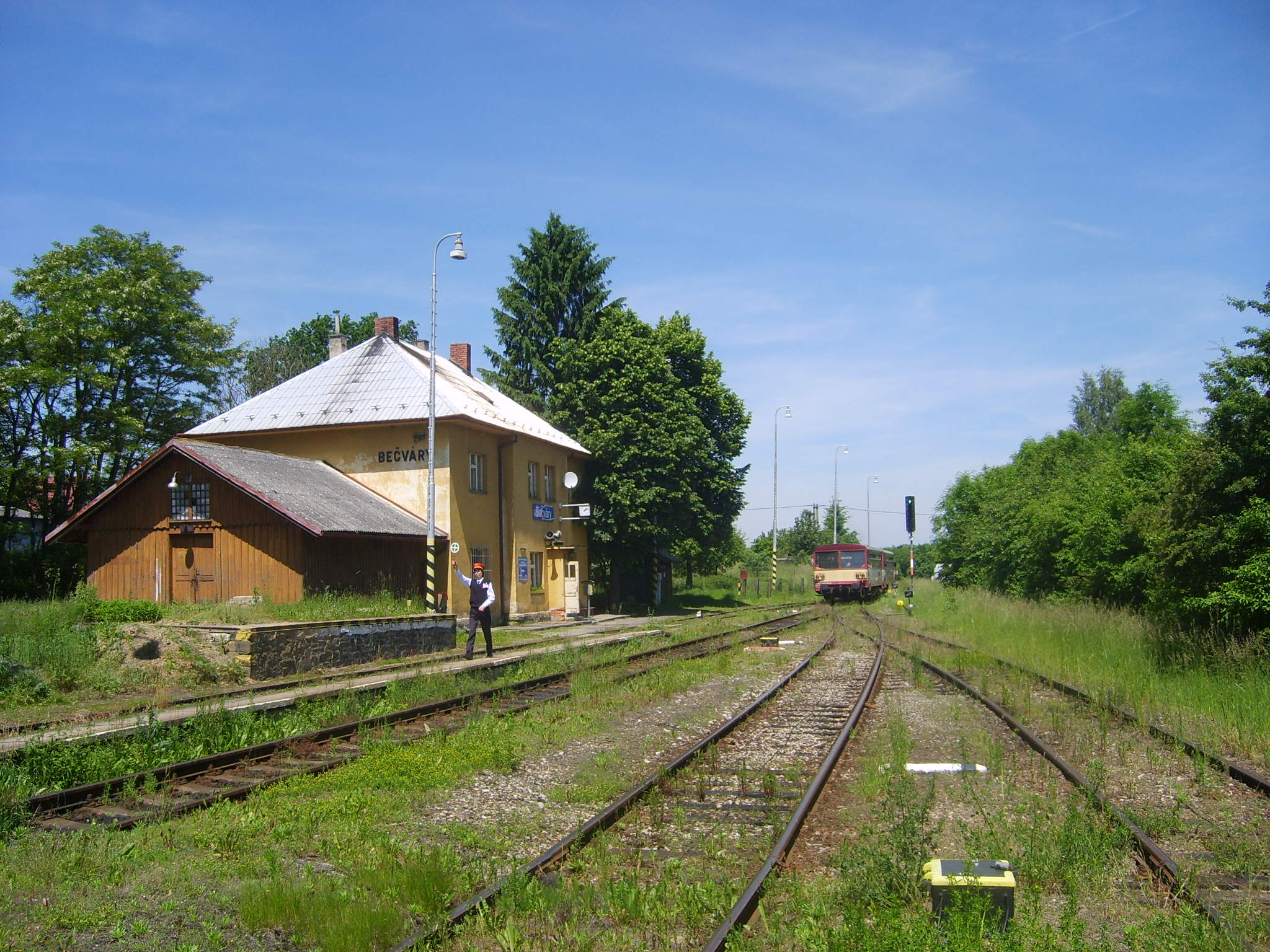 Train station in Bečváry, Czech Republic. A train is departing towards Kolín.